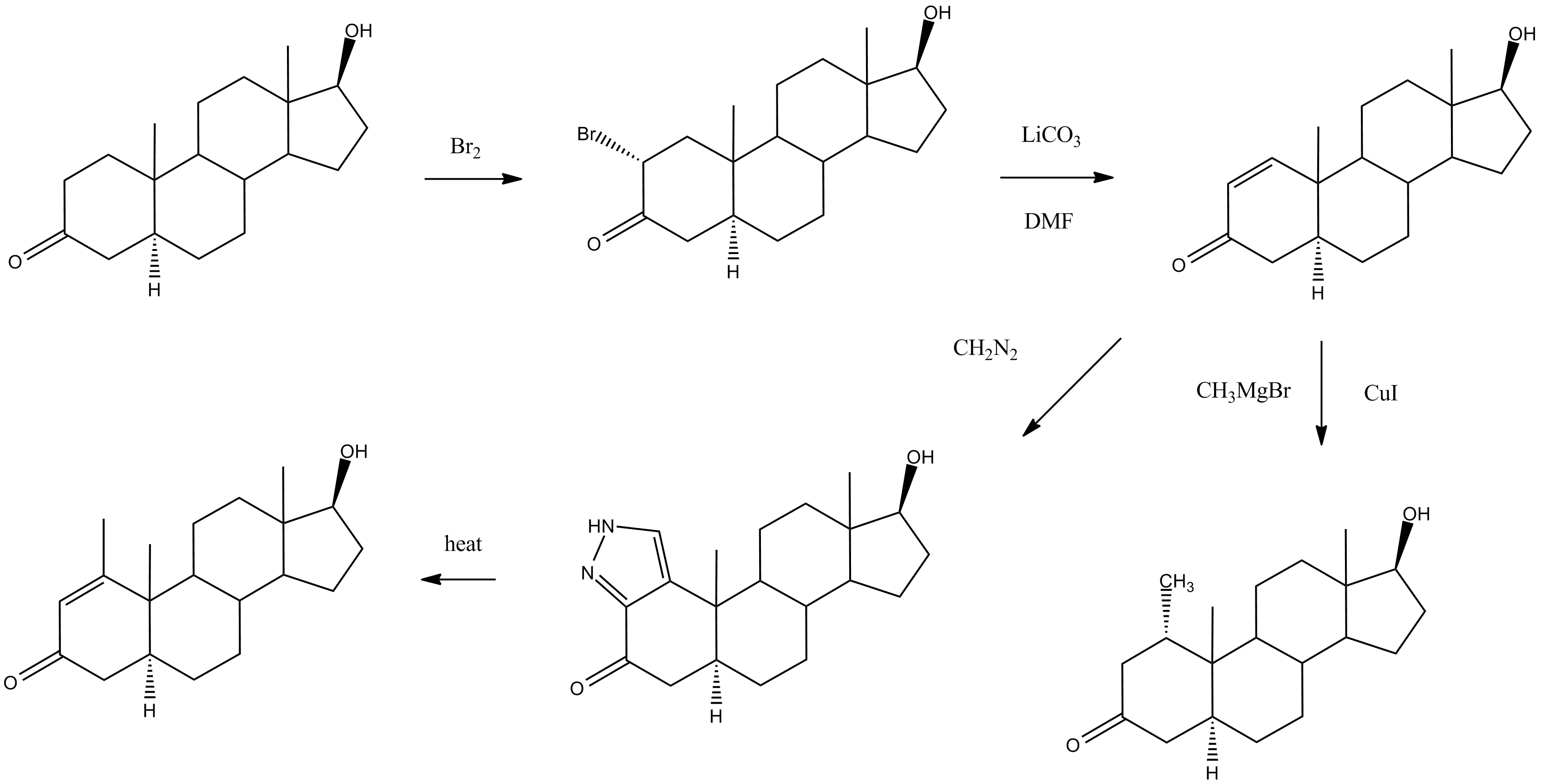 mesterolone and methenolone